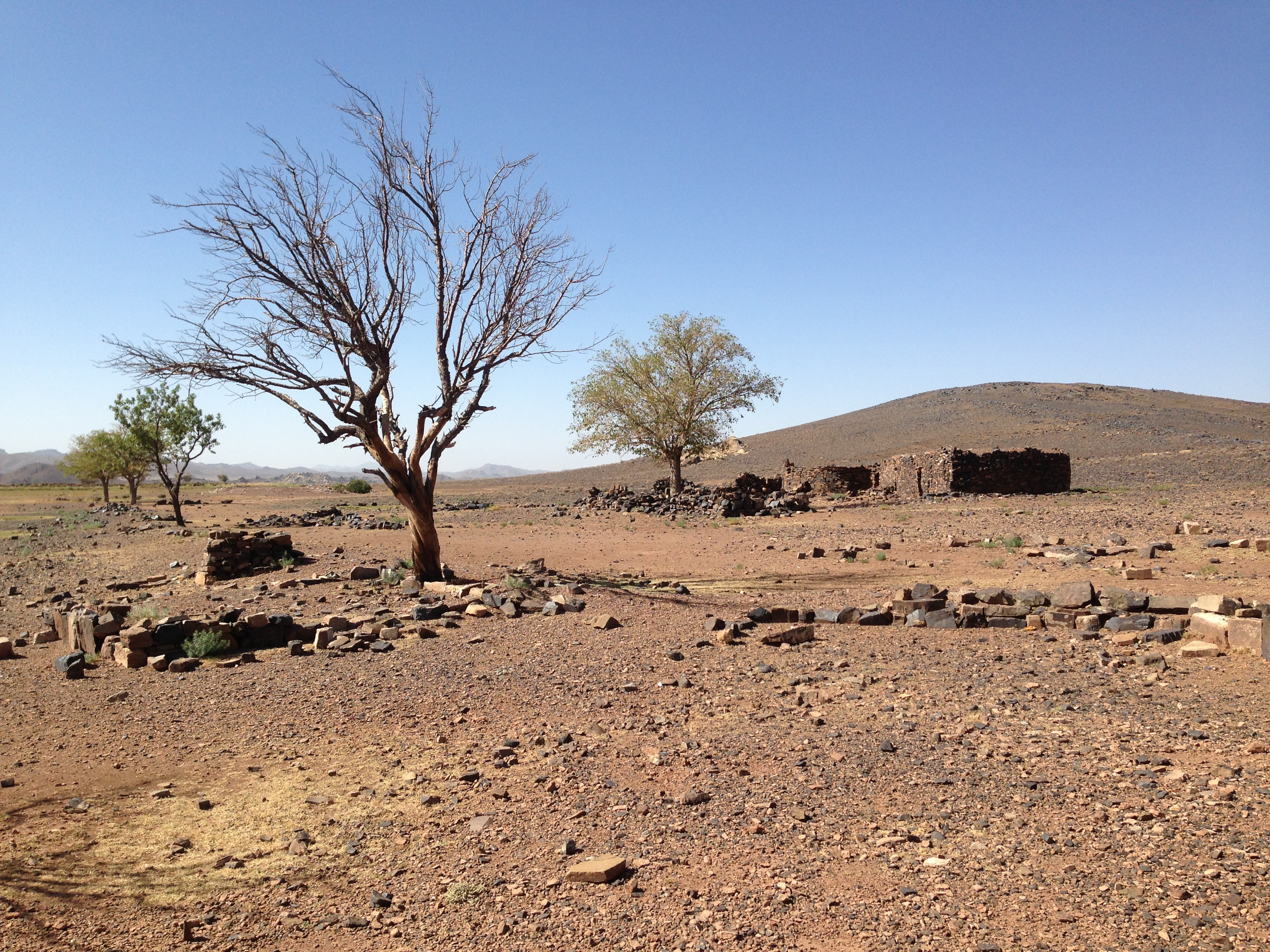 The barren desert lands near Zhob.